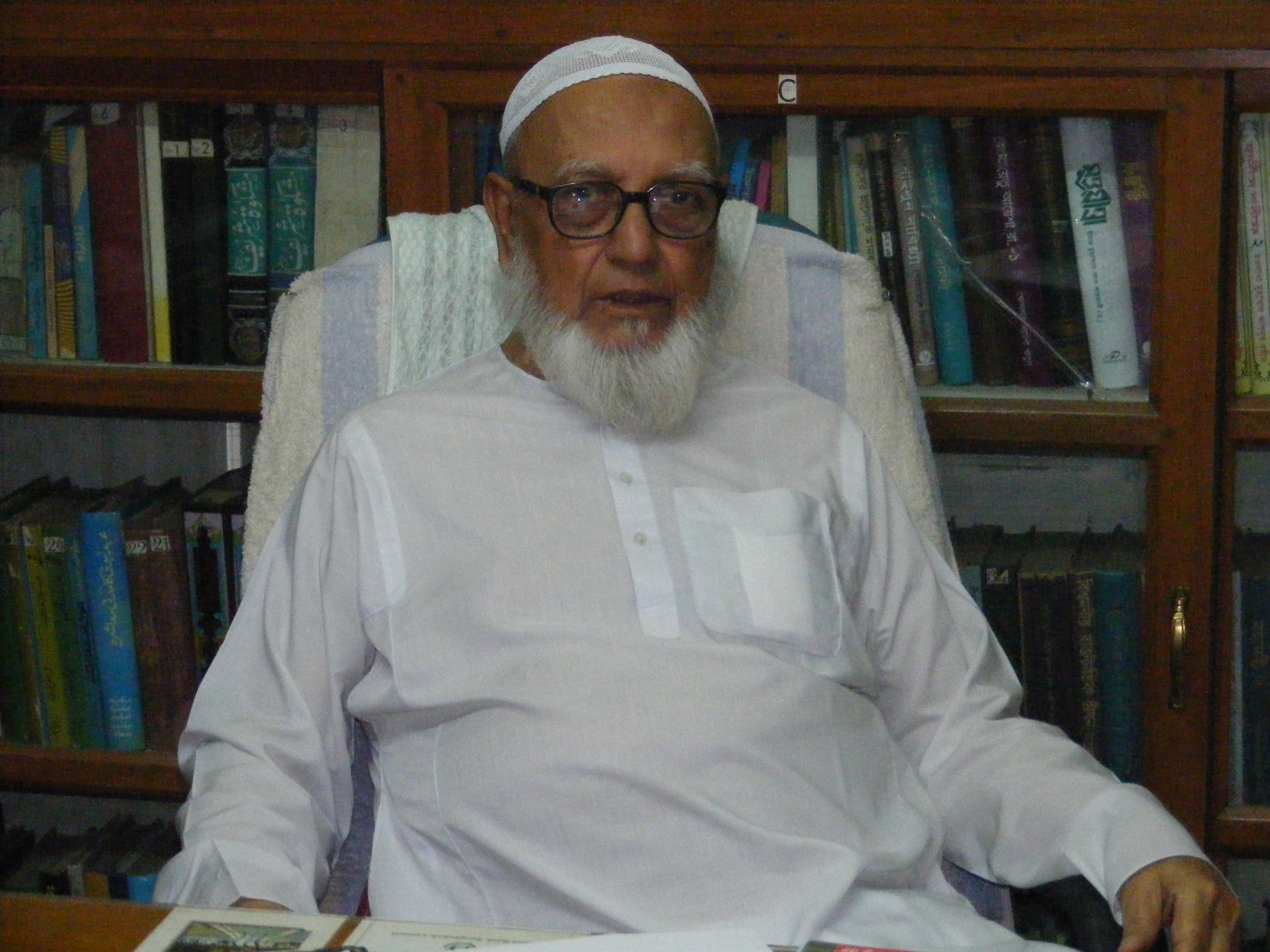 Ghulam Azam